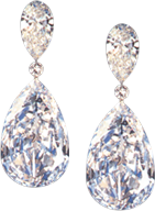 MouawadDiamondIndoorPears collection. Other information Email permission to use this file has been sent to